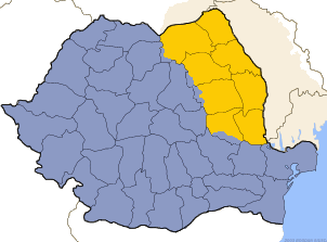 Map of Romania with moldavian historic area (yellow in R., sandy brown out)